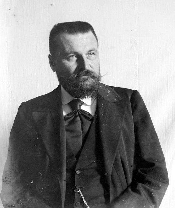 Antonin Perbòsc's portrait by Eugèni Trutat (19th century/early 20th century), taken from the Public Library of Toulouse